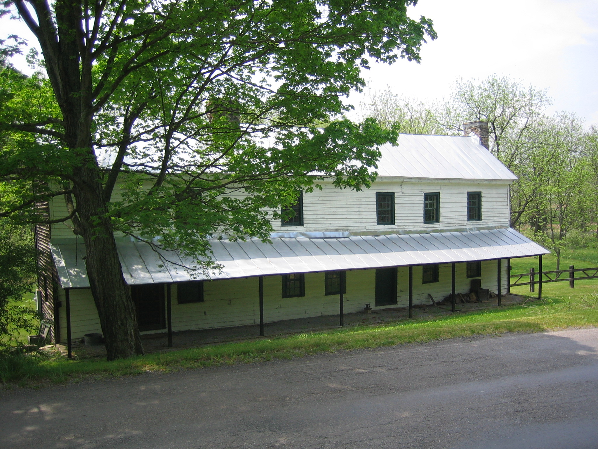 The Hiett House along Cold Stream Road (County Route 45/20) in North River Mills, West Virginia, United States.